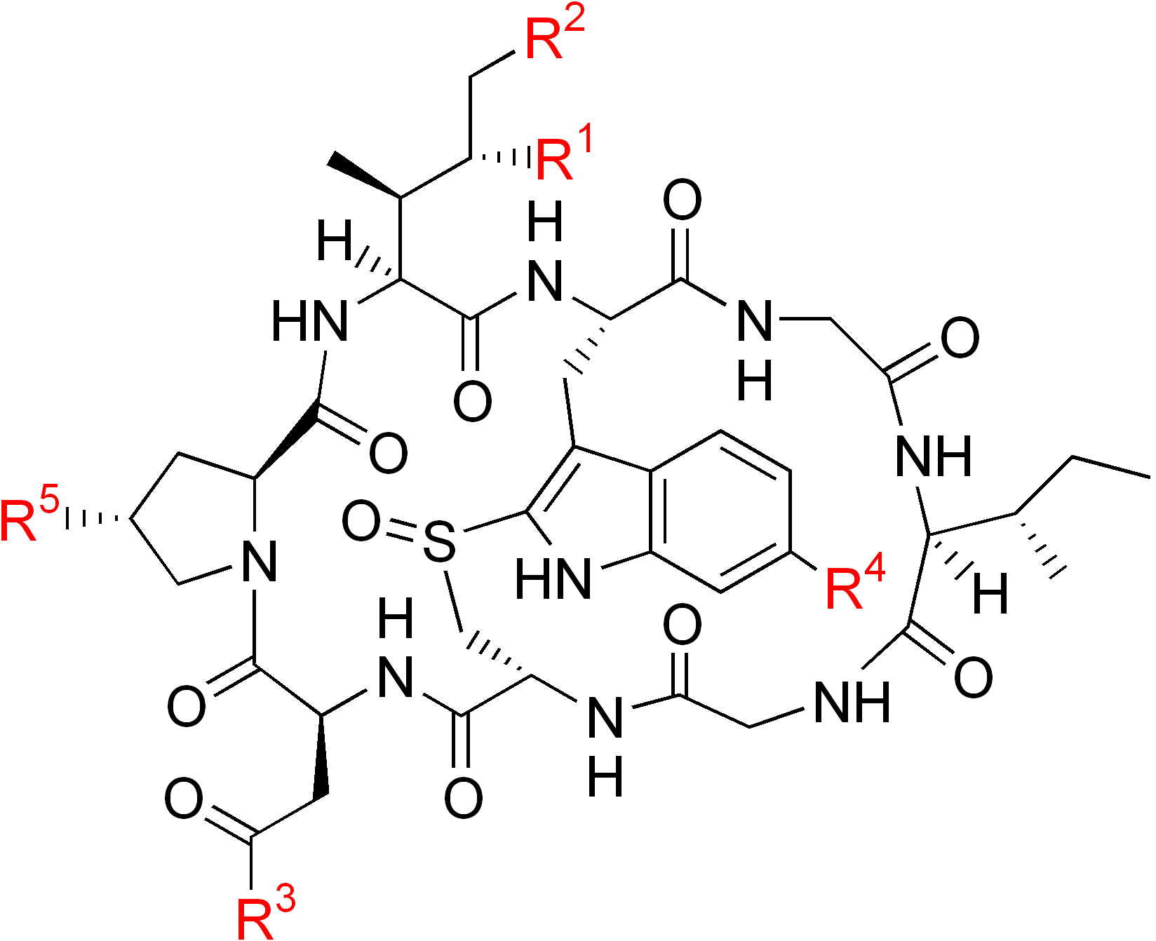 general chemical structure of amatoxins